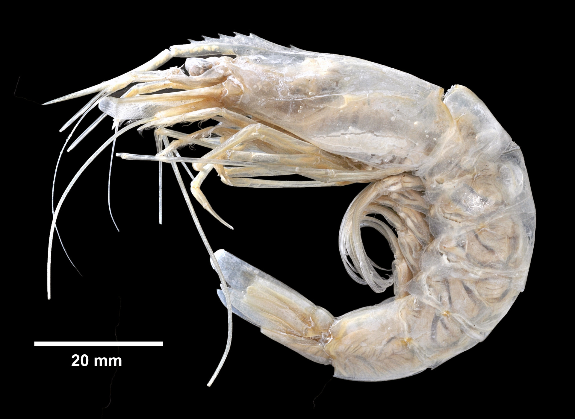 PRESERVED_SPECIMEN; ; 70% alc.; SYNTYPE. See: Smith, Sidney I. 1869. Notice of the crustacea collected by Prof. C.F. Hartt on the coast of Brazil in 1867. Transactions of the Connecticut Academy of Arts and Sciences. 2: 1-42, pl. 1.; IZ number 838; lot count 2; 1867-01-01T00:00:00Z